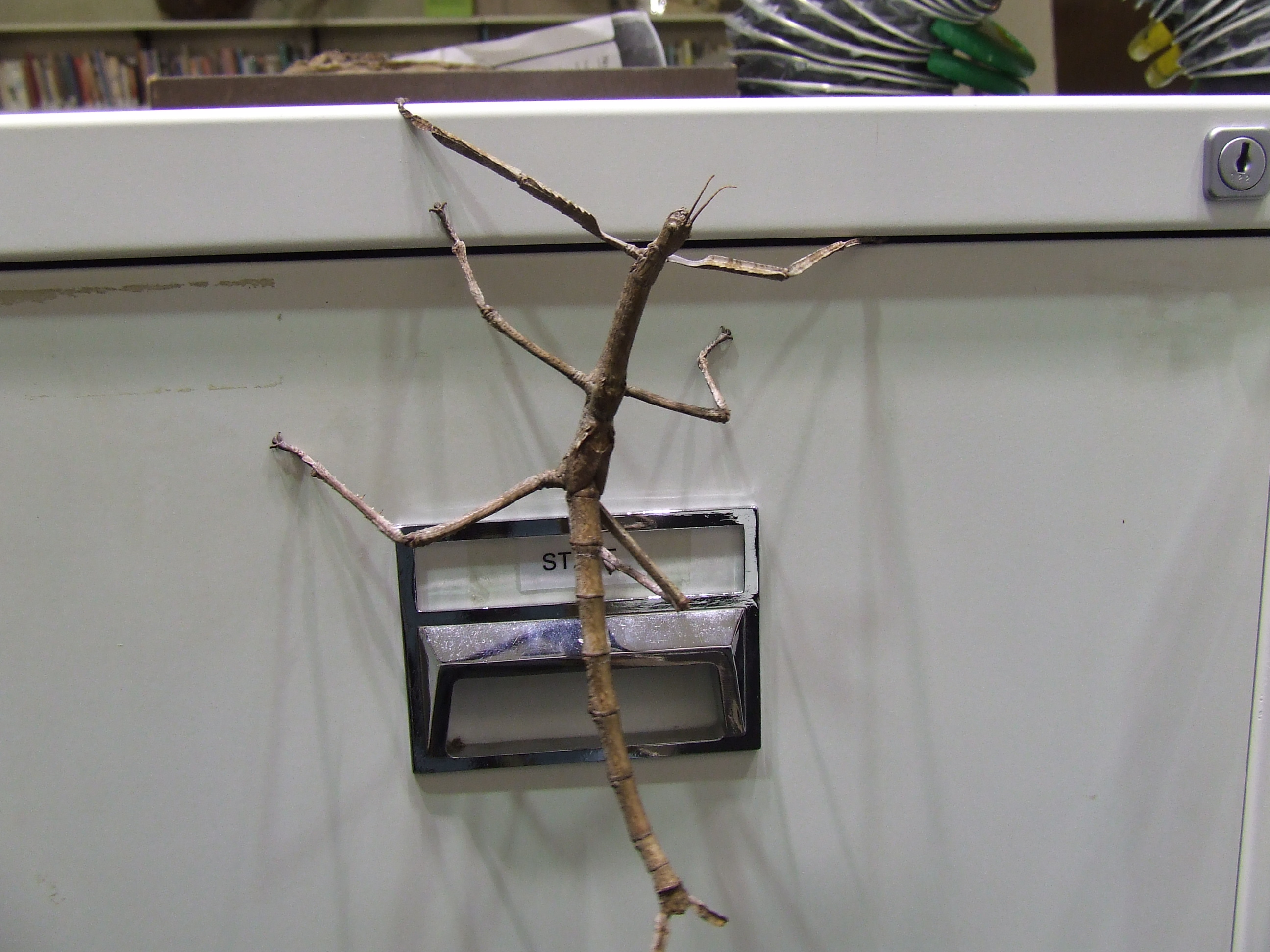 2nd last instar of the Titan stick insect